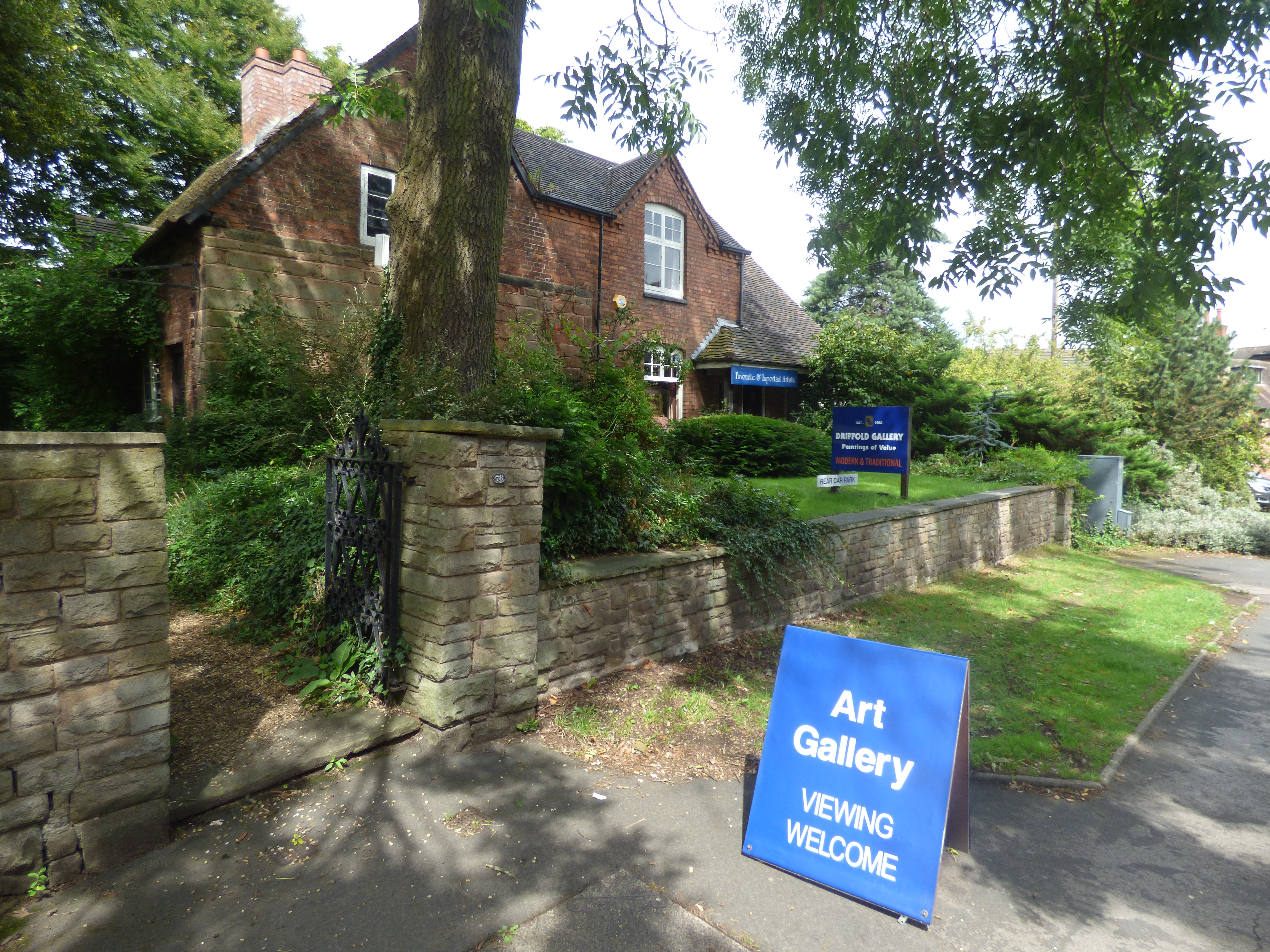 Heading up the Birmingham Road in Maney, Sutton Coldfield towards Maney Corner and The Big Sleuth bear in front of the Empire Cinema. I had walked from Boldmere via Wylde Green. After I found the bear, I got a X4 bus from around here back to Sutton Coldfield Town Centre. Driffold Gallery Grade II listed building The Old Smithy Listing Text 1. 5104 BIRMINGHAM ROAD No 70 (The Old Smithy) SP 19 NW 2/24 18.10.49 II 2. Medieval nucleus cruck timber frame of 3 bays. Front wall partly C15 sandstone ashlar, partly C19 red brick. Casements, 1 ground floor 3 light mullioned window. Old tiled roof, stone chimney stack restored in red brick. See Chatwin and Harcourt, The Bishop Vesey Houses, pp 5-6. Listing NGR: SP1180195323 This text is from the original listing, and may not necessarily reflect the current setting of the building.